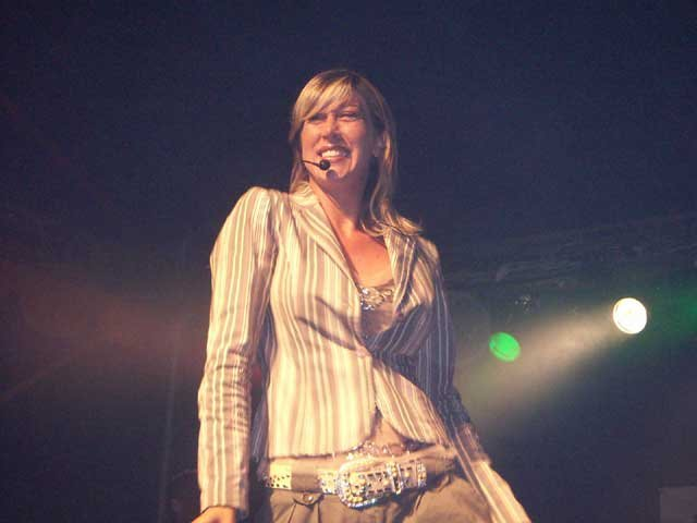 In-grid at park jurajski, Poland